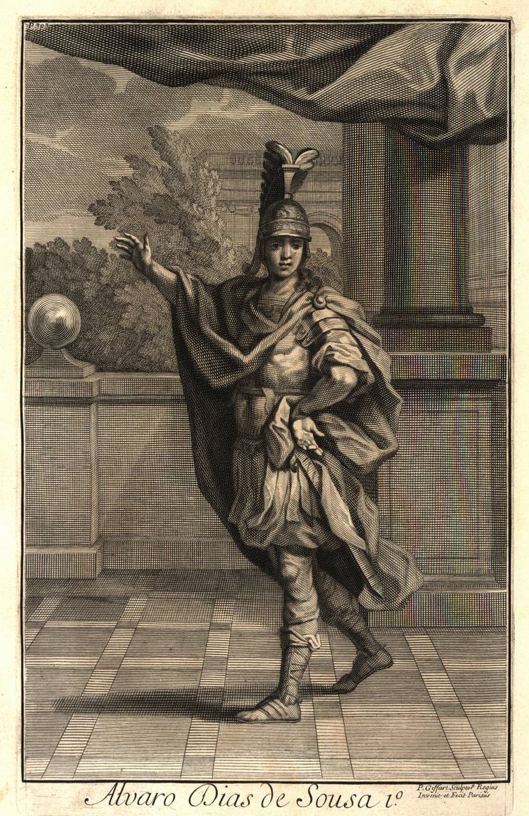 D. Álvaro Dias de Sousa (c. 1330-1365), medieval Portuguese nobleman